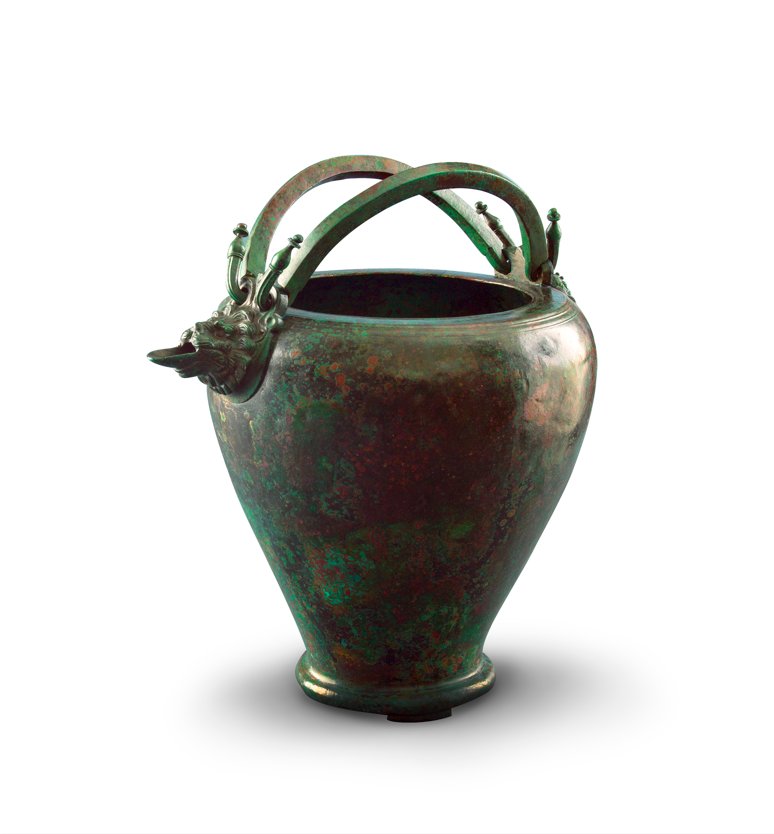 Bronze stamnoid situla, c. 340-320 BC, part of the Vassil Bojkov Collection, Sofia, Bulgaria